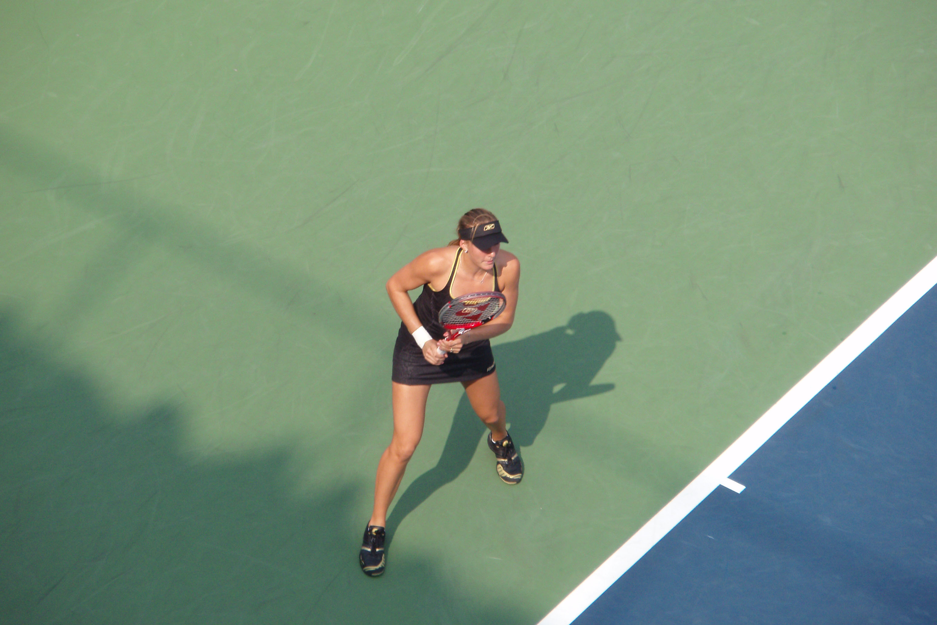 Nicole Vaidisova At The 2007 US Open